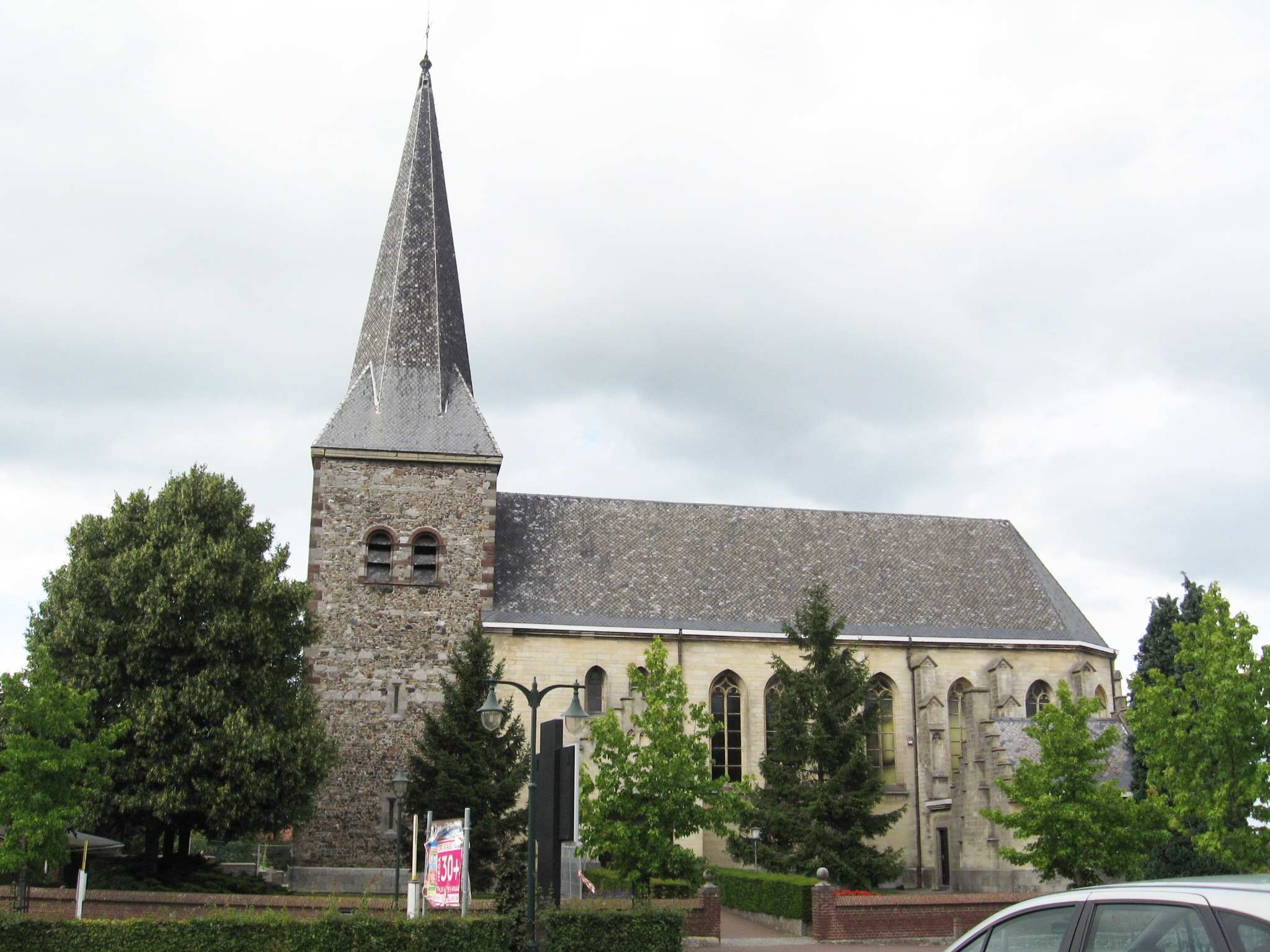 Church of Our Lady in Gerdingen, Bree, Limburg, Belgium